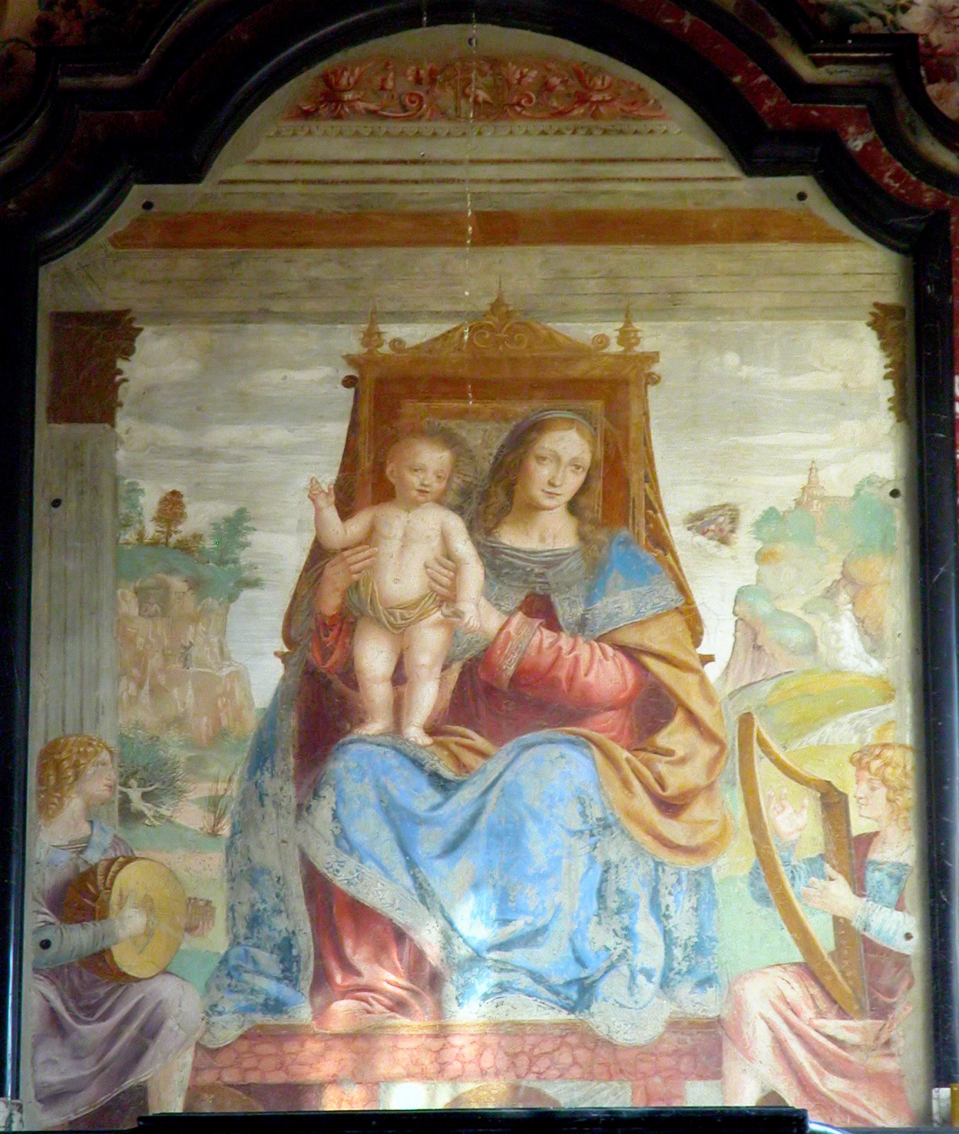 "Chiaravalle" abbey near Milan (Italy). A fresco with Madonna and Child painted by Bernardino Luini in 1512.